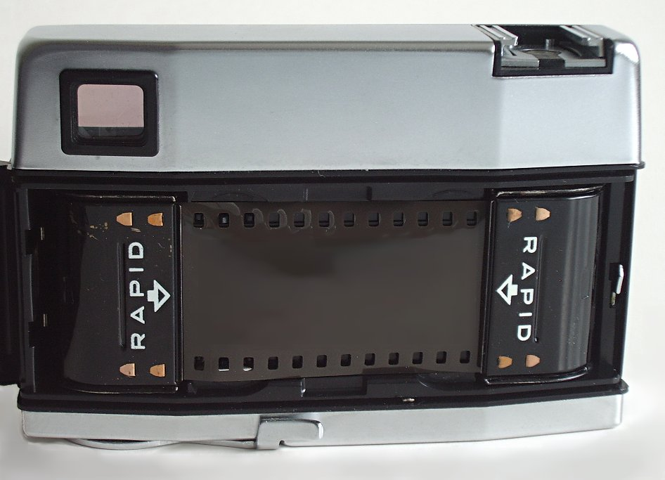 Agfa Optima Rapid 250 Camera. Back door opened to show Agfa's Rapid film loading system.